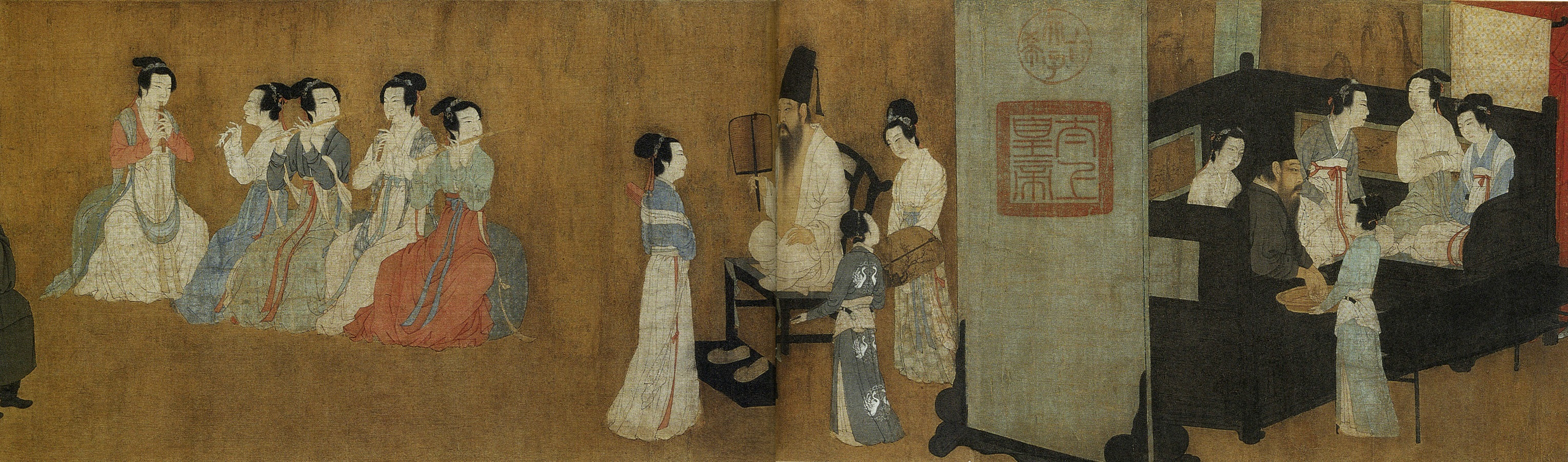 Night Revels